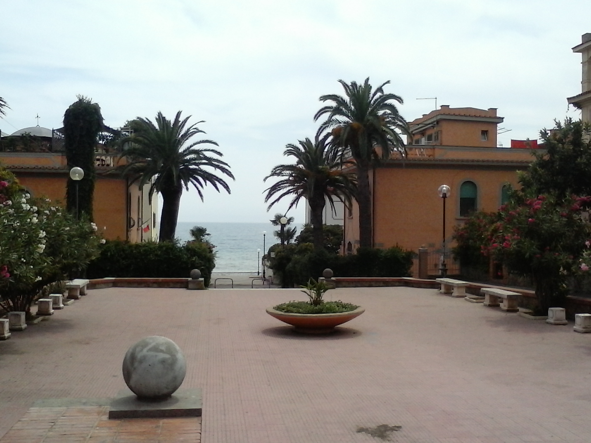 Can I use this photo? Read here for more informations.